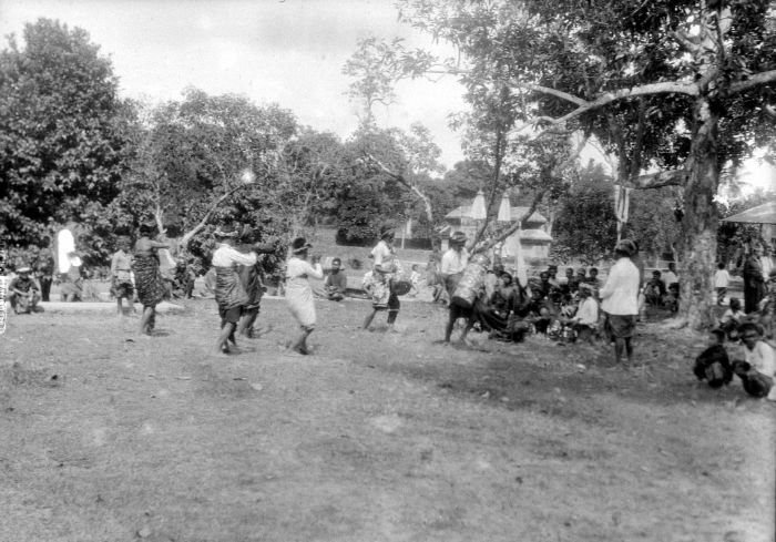 Sasak dance near the pura at Lingsar